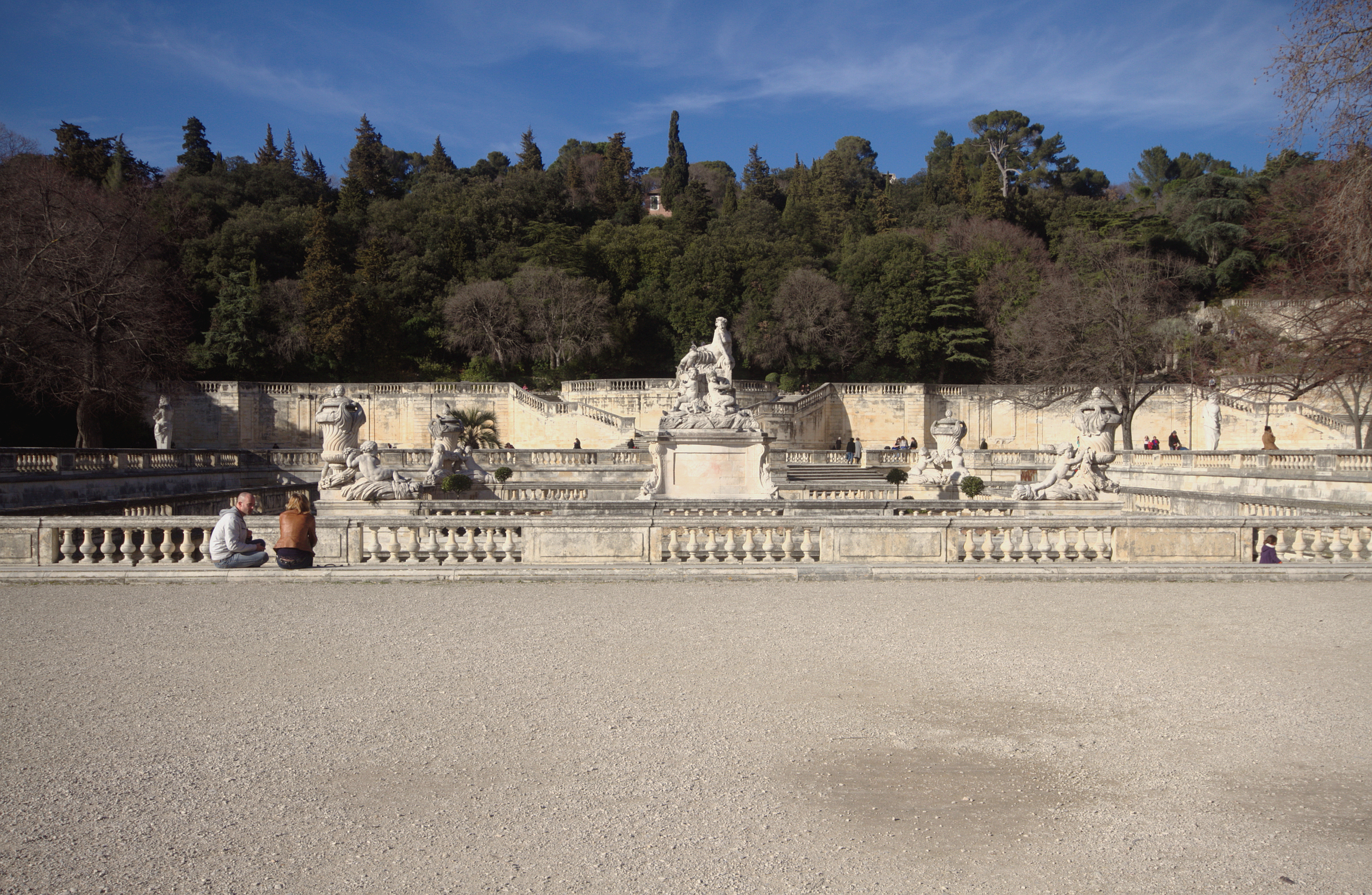 Jardins de la Fontaine